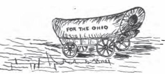 Manasseh Cutler prepared this wagon in Danvers, Massachusetts for the first pioneers to the Ohio Country. Image and quote from the book by Thomas Summers: History of Marietta, The Leader Publishing Co., Marietta, Ohio (1903). ColWilliam (talk) 22:37, 30 March 2008 (UTC)